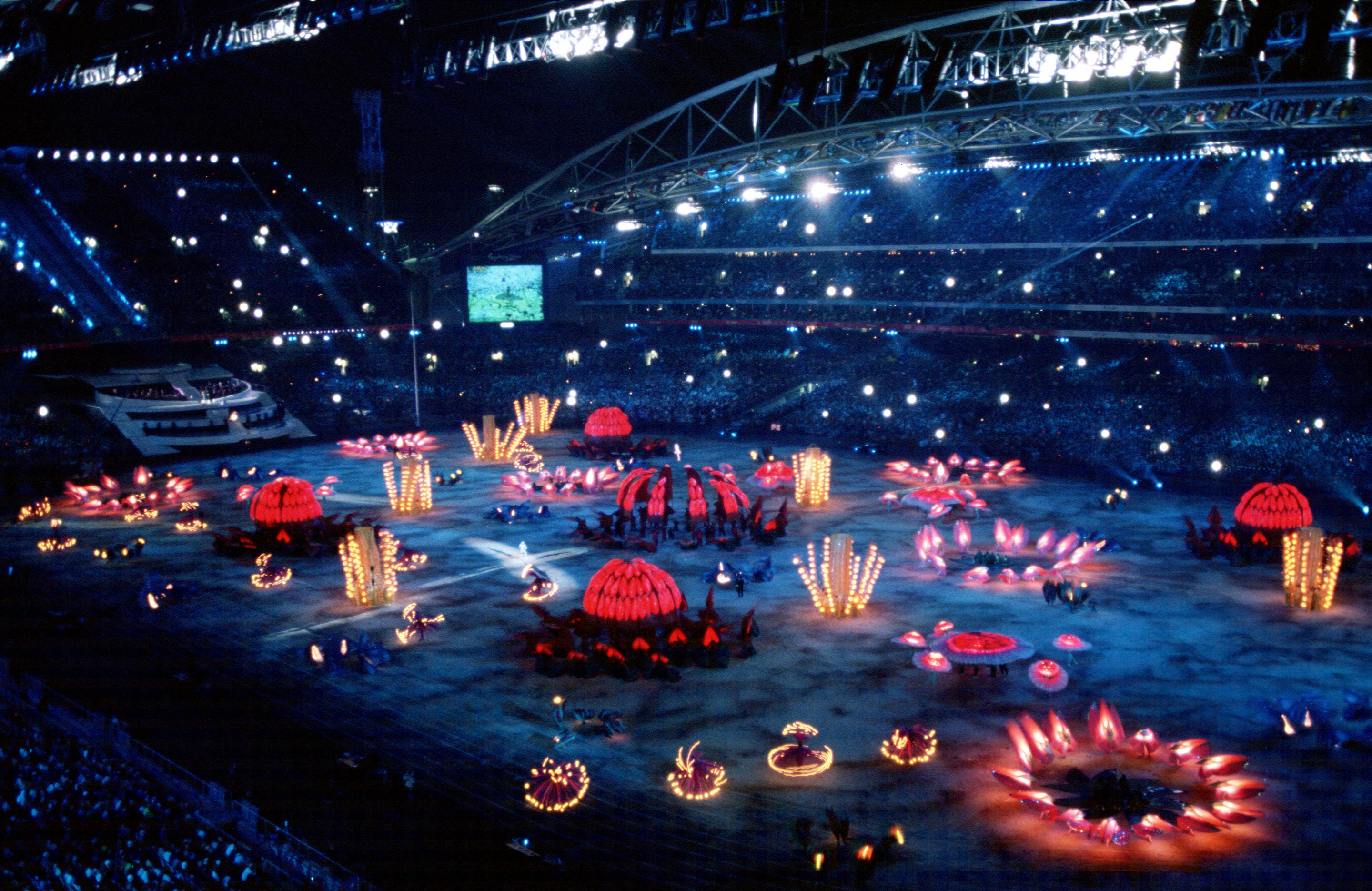 High angle view down onto the Sydney Olympic Stadium floor as thousands of performers take part in the opening ceremonies for the 2000 Olympic games before an audience of 110,000 on September 15th, 2000.